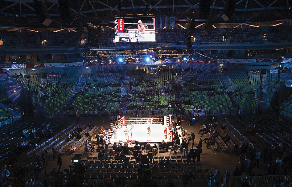 2011 boxing event in Stožice Arena